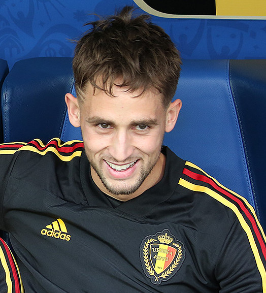 Januzaj and Hazard at the 2018 World Cup